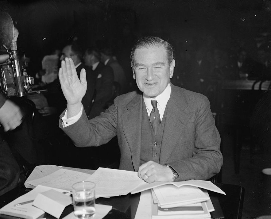 President's court plan "leap in dark" Yale professor tells Senate Committee. Washington, D.C., March 31. Appearing before the Senate Judiciary Committee today, Edwin Borchard Professor of Constitutional Law at Yale, declared the President's court reorganization plan is a "speculative leap in the dark unless a revolution in the attitude of the judges toward the constitution is anticipated". Prof. Borchard further declared the bill is unsound and ineffective and that it should be voted down, 3/31/1937